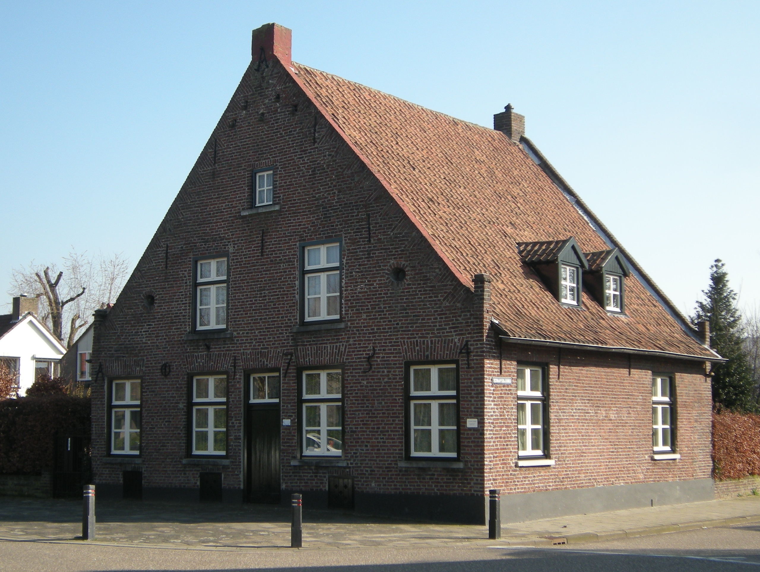 Guelders post service